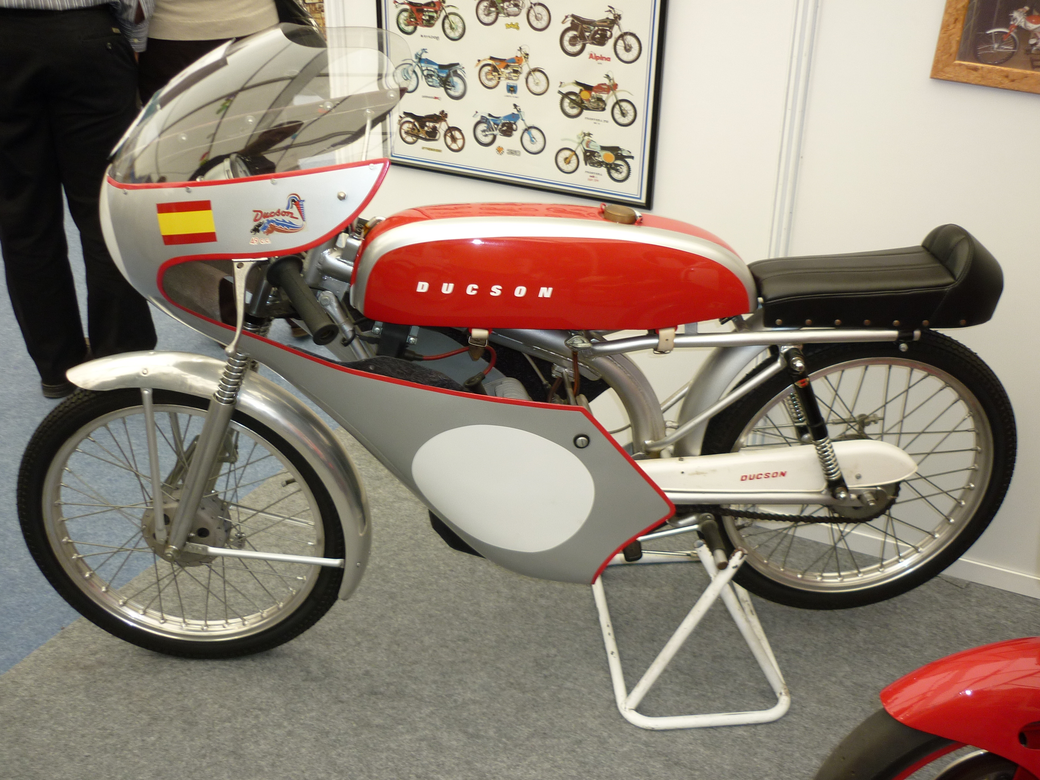 Ducson based on a moped Sport 49cc (around 1968), with changes for racing purpose.Exposed by Josep Isern at the FIMO (Mollet del Vallès, Catalonia, 1 to 3 October 2010)